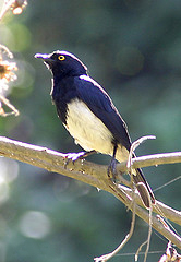 Adult Abbott's Starling (Poeoptera femoralis), Tanzania. Note that the full resolution version is copyrighted; only this resolution or smaller is freely licensed.